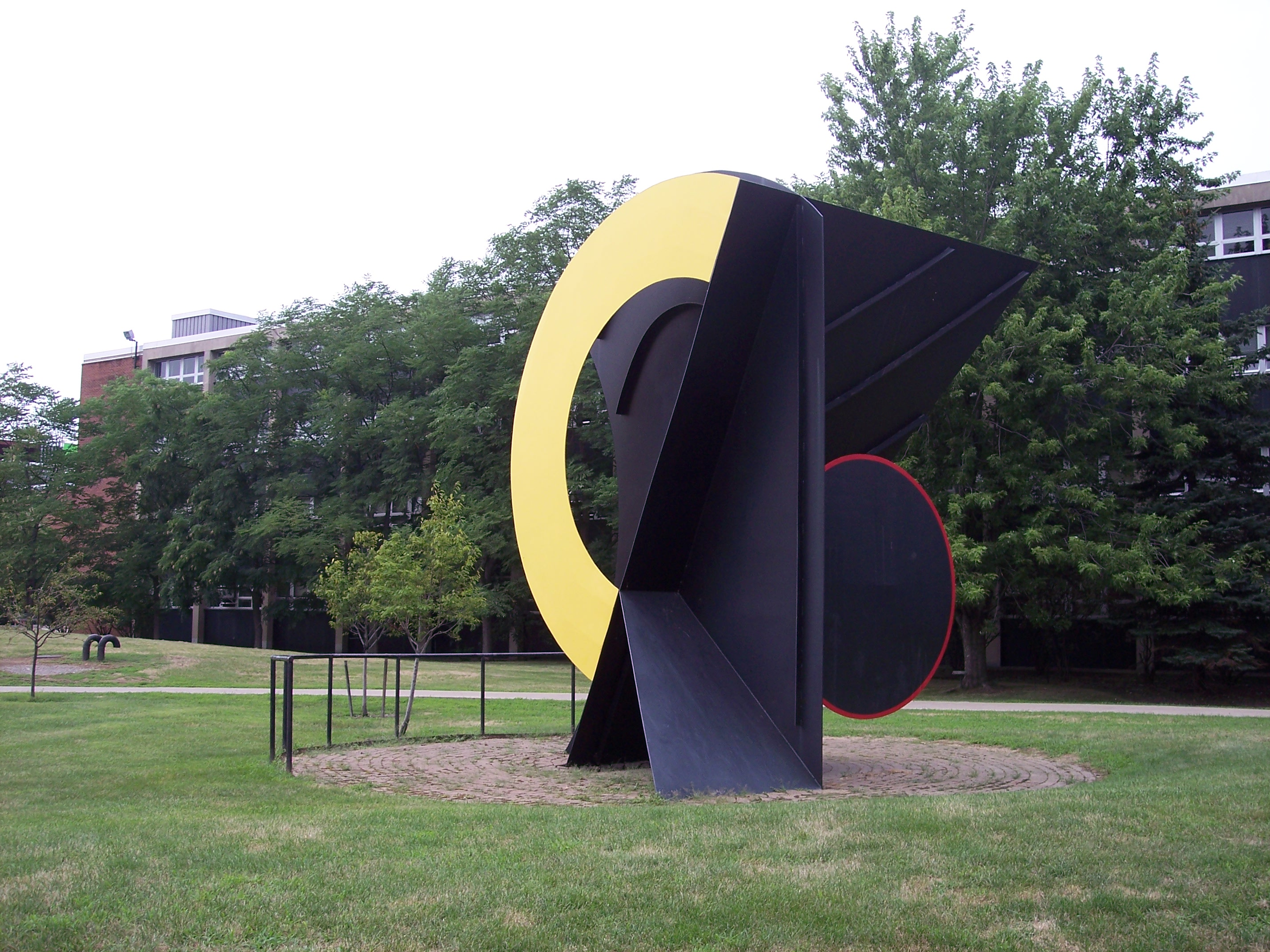 rooster sculpture "Cock-a-doodle-doo" (1982) by Billie Lawless in front of Upton Hall at Buffalo State College